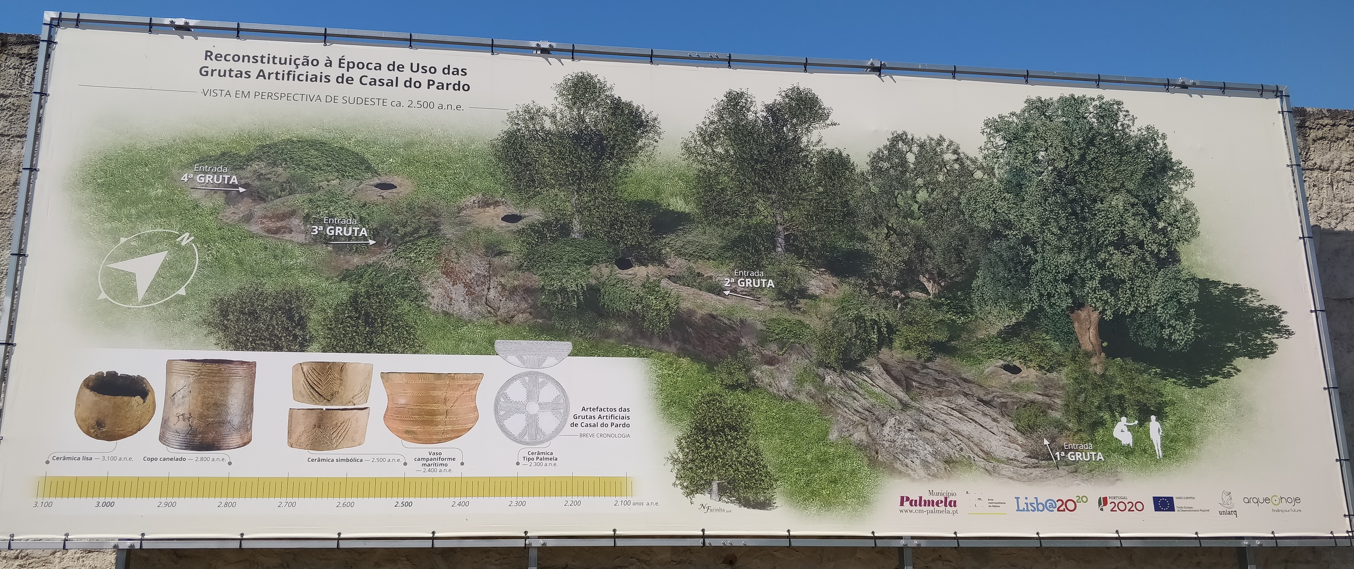 Artificial caves of Casal do Pardo, Palmela, Setubal District, Portugal. Noticeboard illustrating the caves as they were originally, together with some of the artifacts found